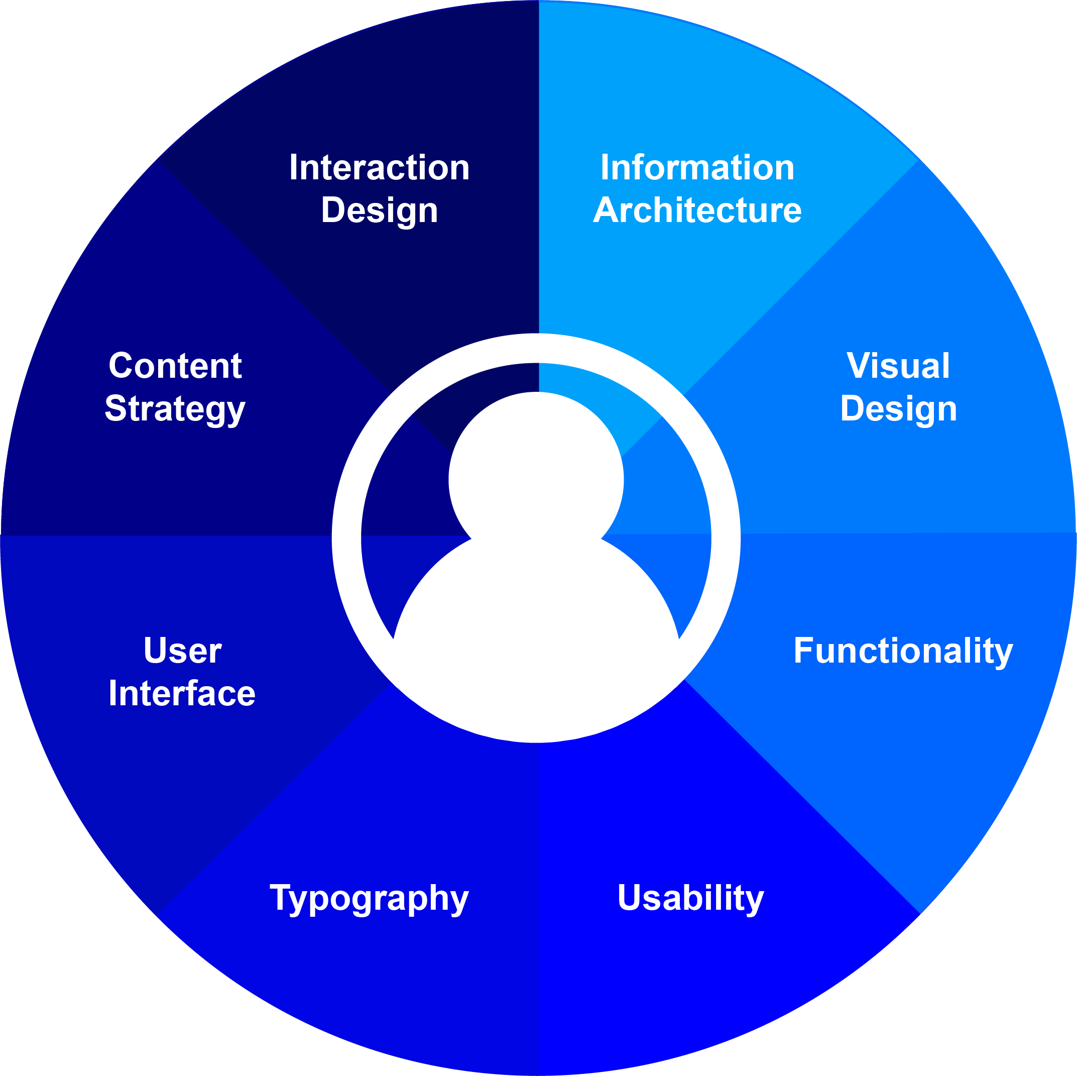 The subject areas of user experience design